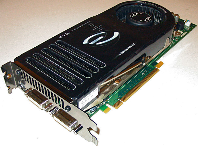 GeForce 8800 GTX photo. Taken by uploader.